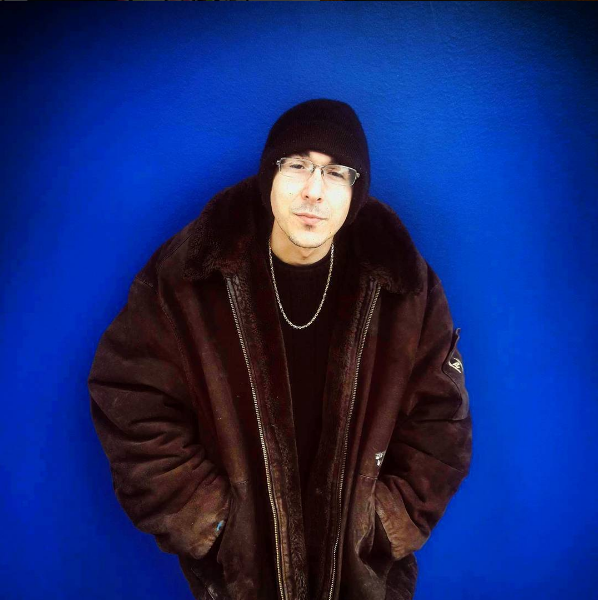 A photo of Orikal Uno taken in Downtown St. Paul 2-15-2017